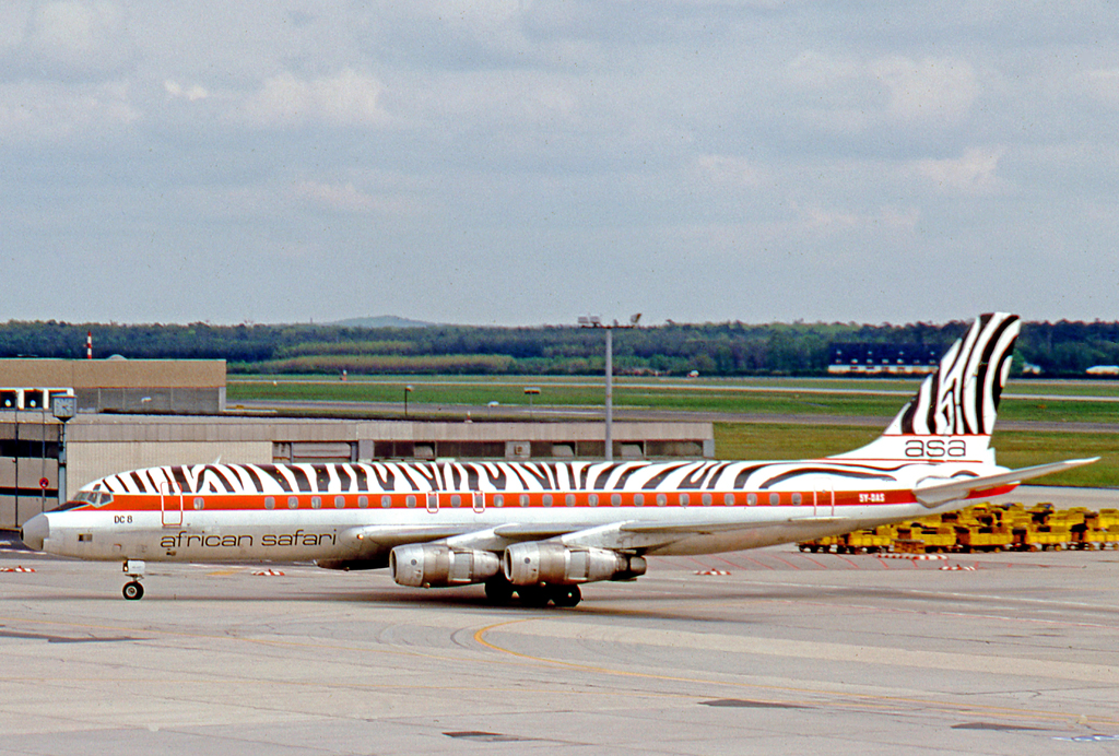 Douglas DC-8-53 5Y-BAS of African Safari Airways at Frankfurt Airport in 1977